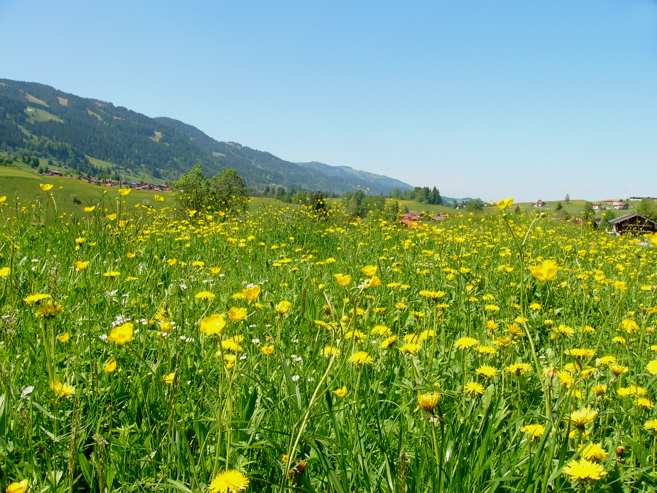 The municipality Obermaiselstein is located in the Allgäu region of the Bavarian Alps in southwest Germany. View of wildflower meadows in the area.